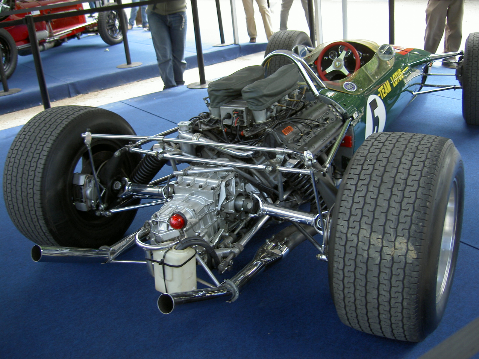 F1 Lotus 49 (early version)